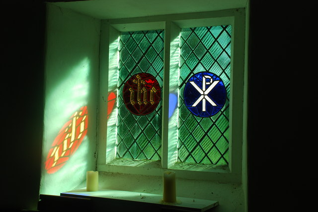 Eglwys Santes Tudwen Llandudwen. East end of 555173